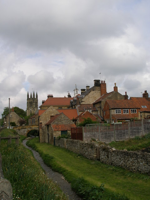 Looking up Borough Beck to the higgledy-piggledy buildings of Helmsley